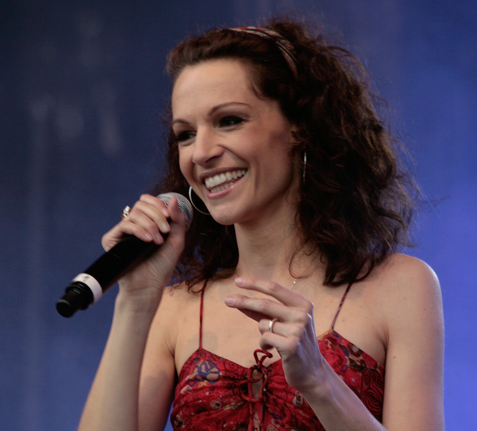 Eva K. Anderson, concert at the Kaiserwiese (Prater, Vienna).